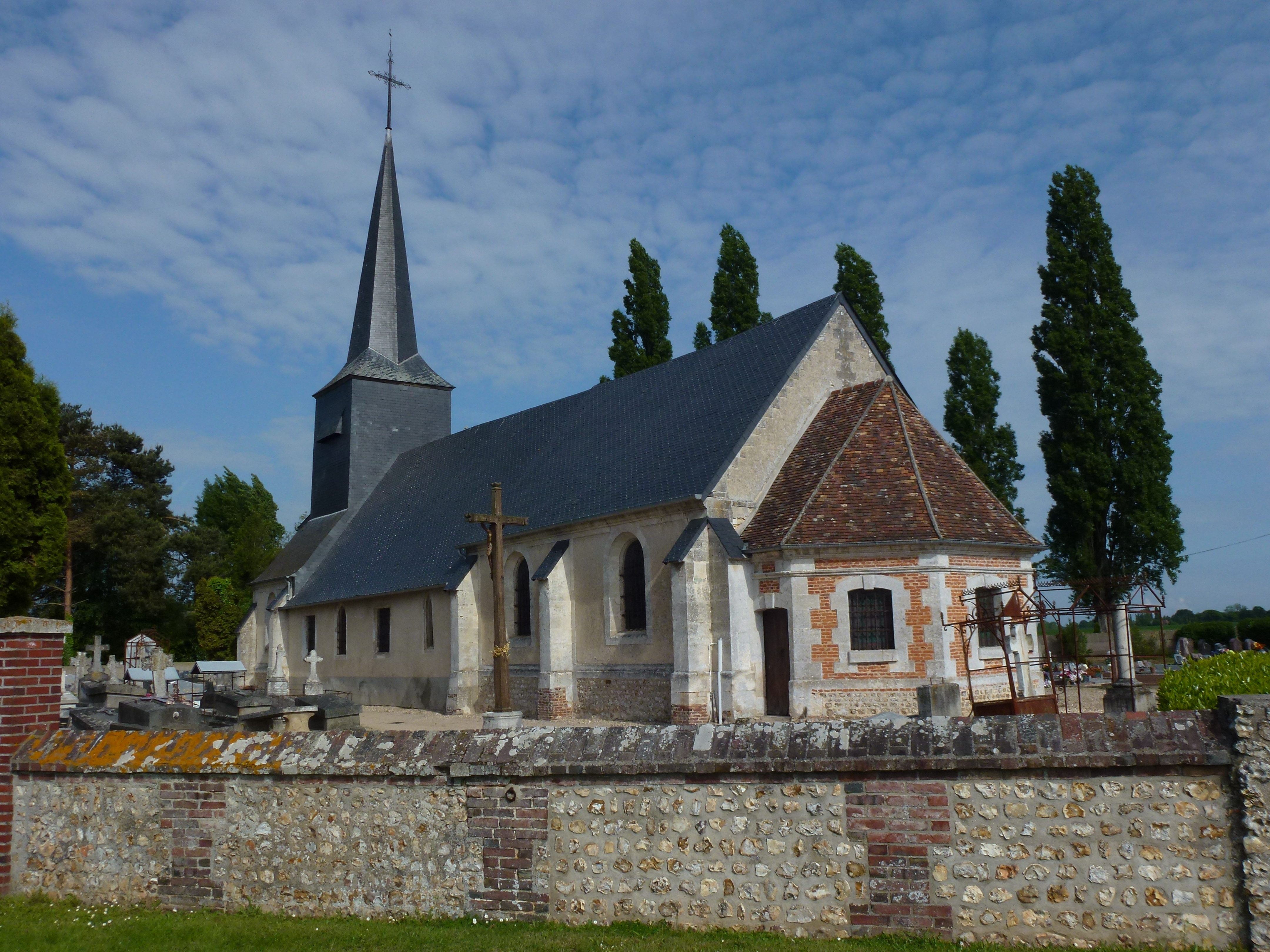 Bosrobert (Eure, Fr) église